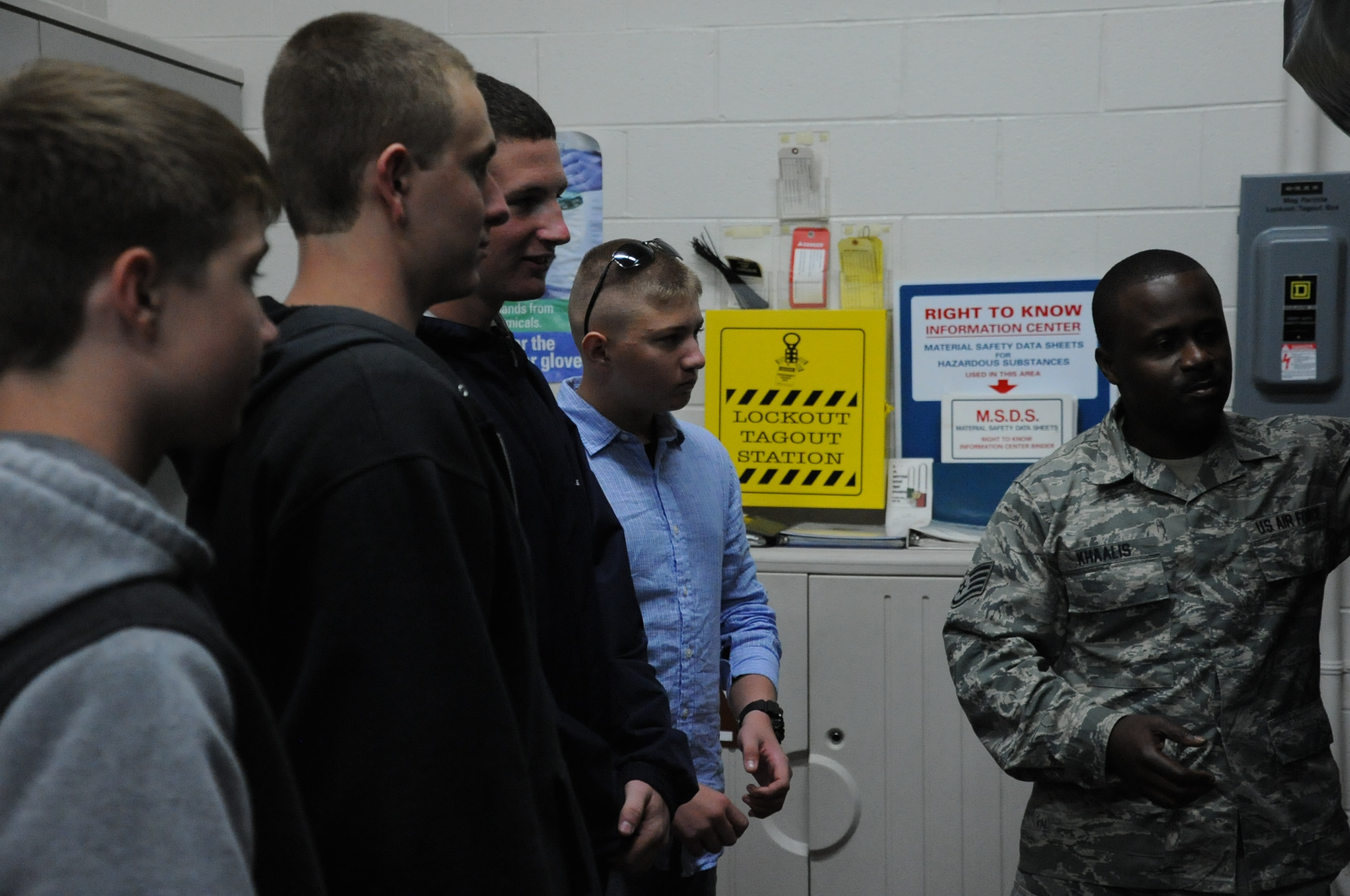 SSgt Khaalis, shows Civil Air Patrol cadets how the Charleston AFB Nondestructive Inspection shop uses x-rays to detect cracks, delaminations, voids, processing defects and heat damage on aircraft structures and parts, Saturday November 1. Members of the Clearwater Composite Squadron Civil Air Patrol took a took a tour of Charleston AFB as part of their Aerospace Education mission. (U.S. Air Force Photo/SSgt Adam Borgman)